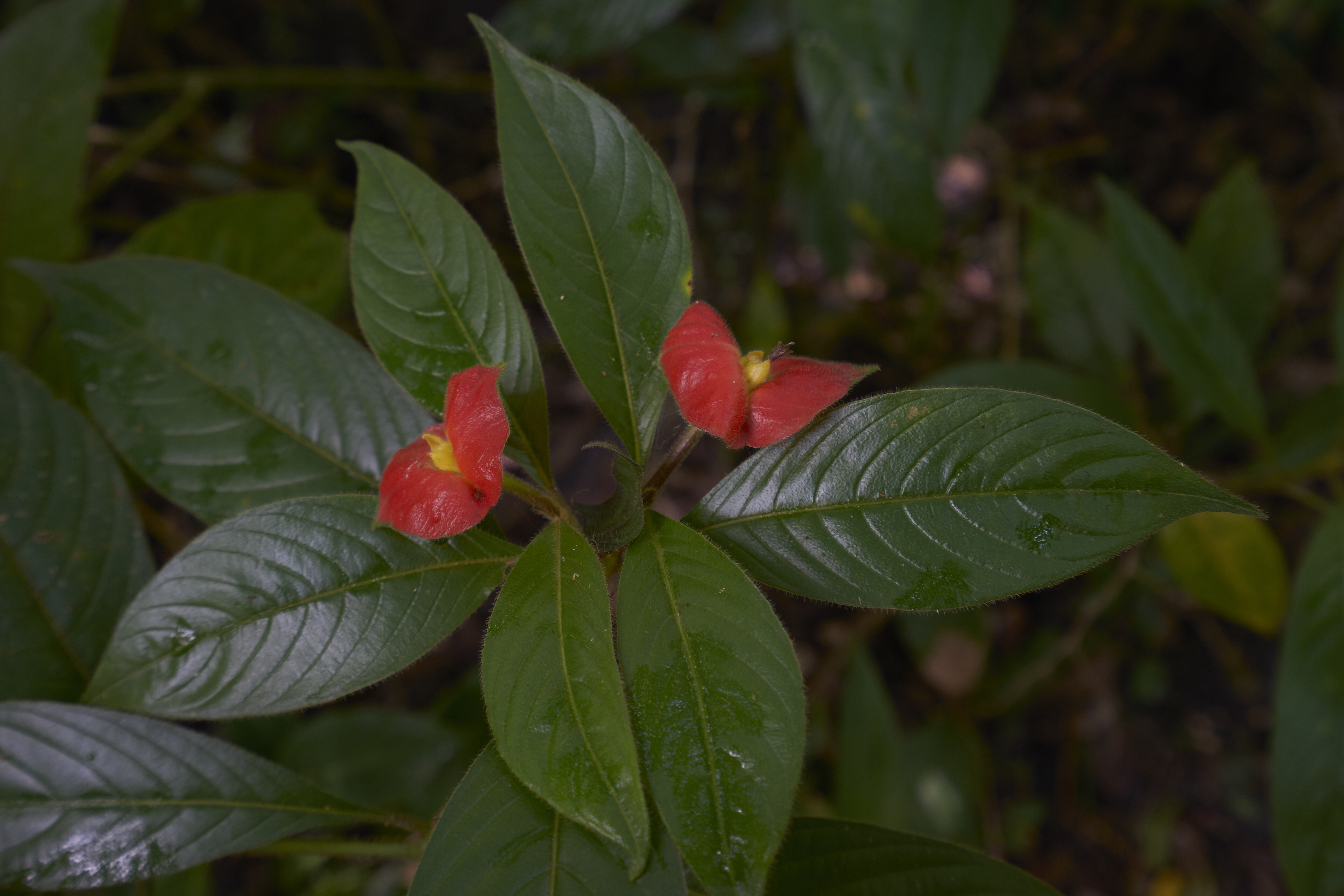 Psychotria poeppigiana in Belize Zoo The making of this document was supported by the Community-Budget of Wikimedia Germany.